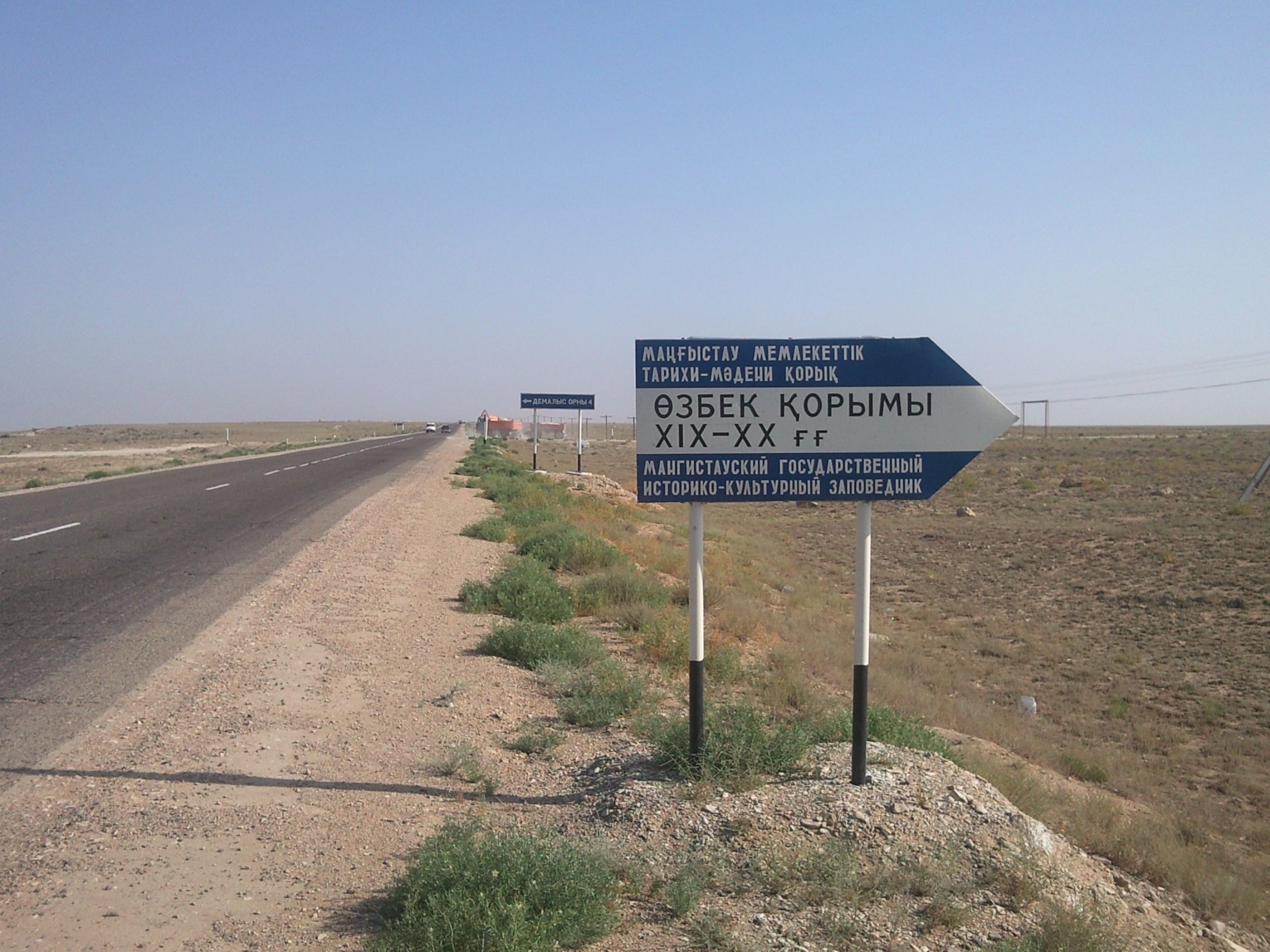 Signpost of the Uzbek Khan grave, on the road near the city of Aktau on the way to Bautino, Kazakhstan.